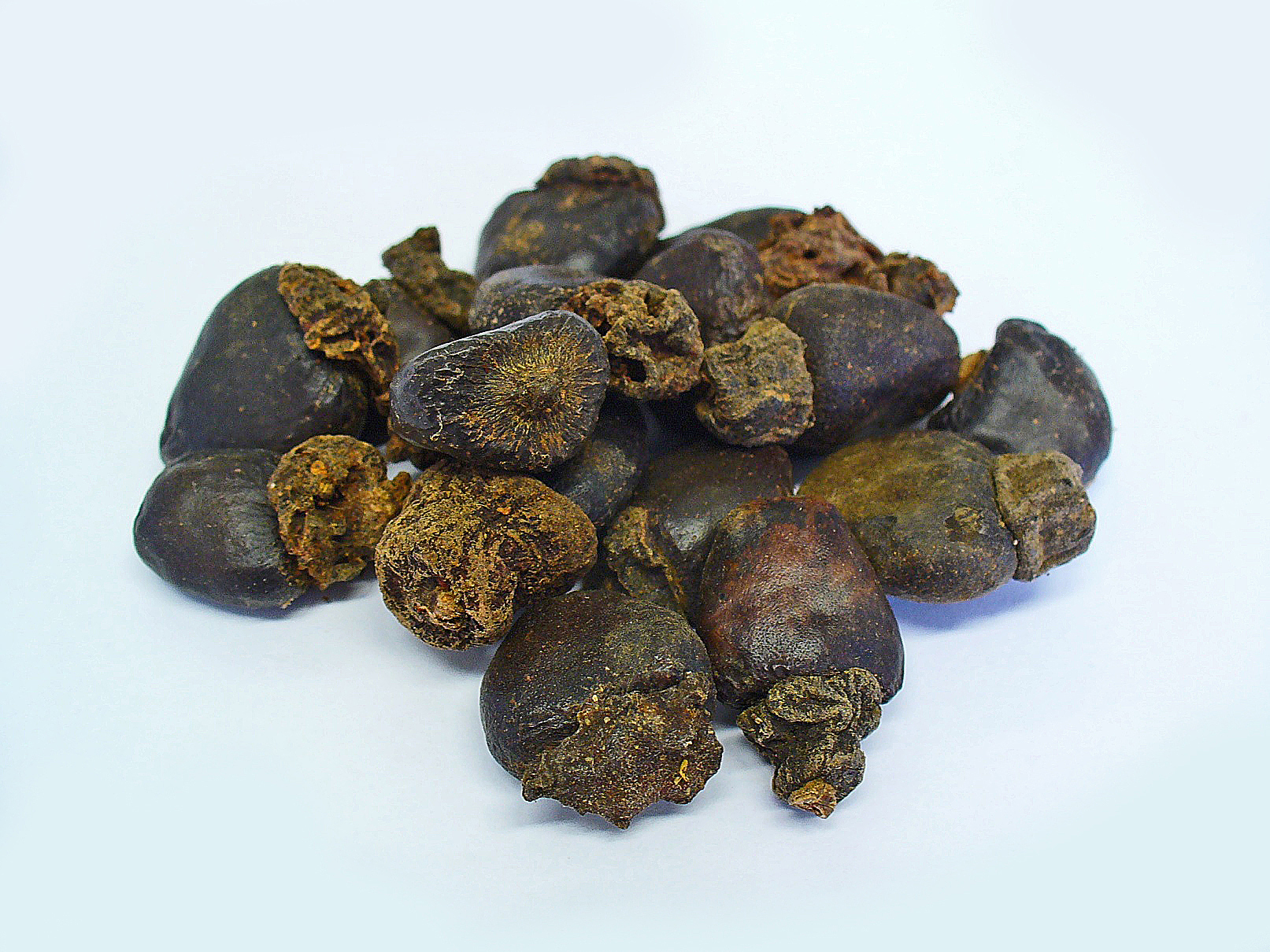 Semecarpus anacardium, Anacardiaceae, Oriental Anacardium, dried fuits. The dried fuits are used in homeopathy as remedy: Anacardium / Anacardium orientale(Anac.)